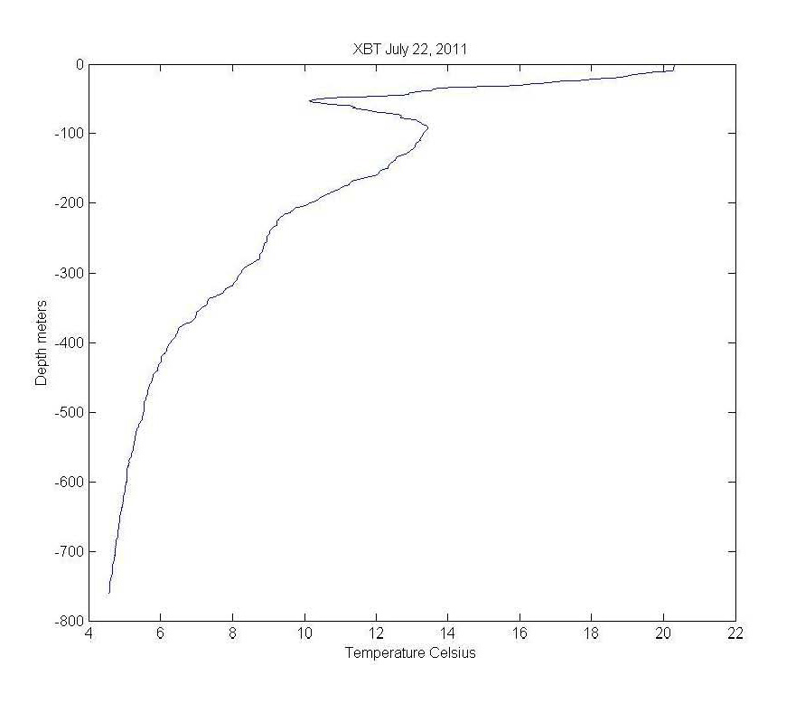 Sample expendable bathythermograph (XBT) temperature profile taken July 22, 2011. Image ID: fis01299, NOAA's Fisheries Collection Credit: NOAA/NEFSC Field Science/Science at Sea 7/29/2011